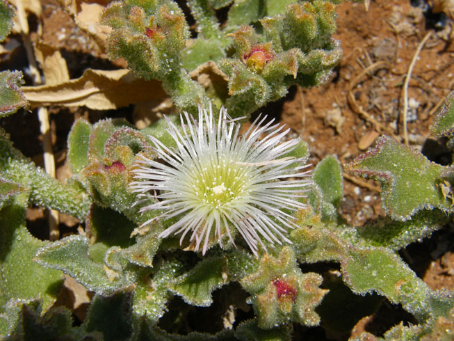 Mesembryanthemum crystallinum in a xeric garden, in Israel.